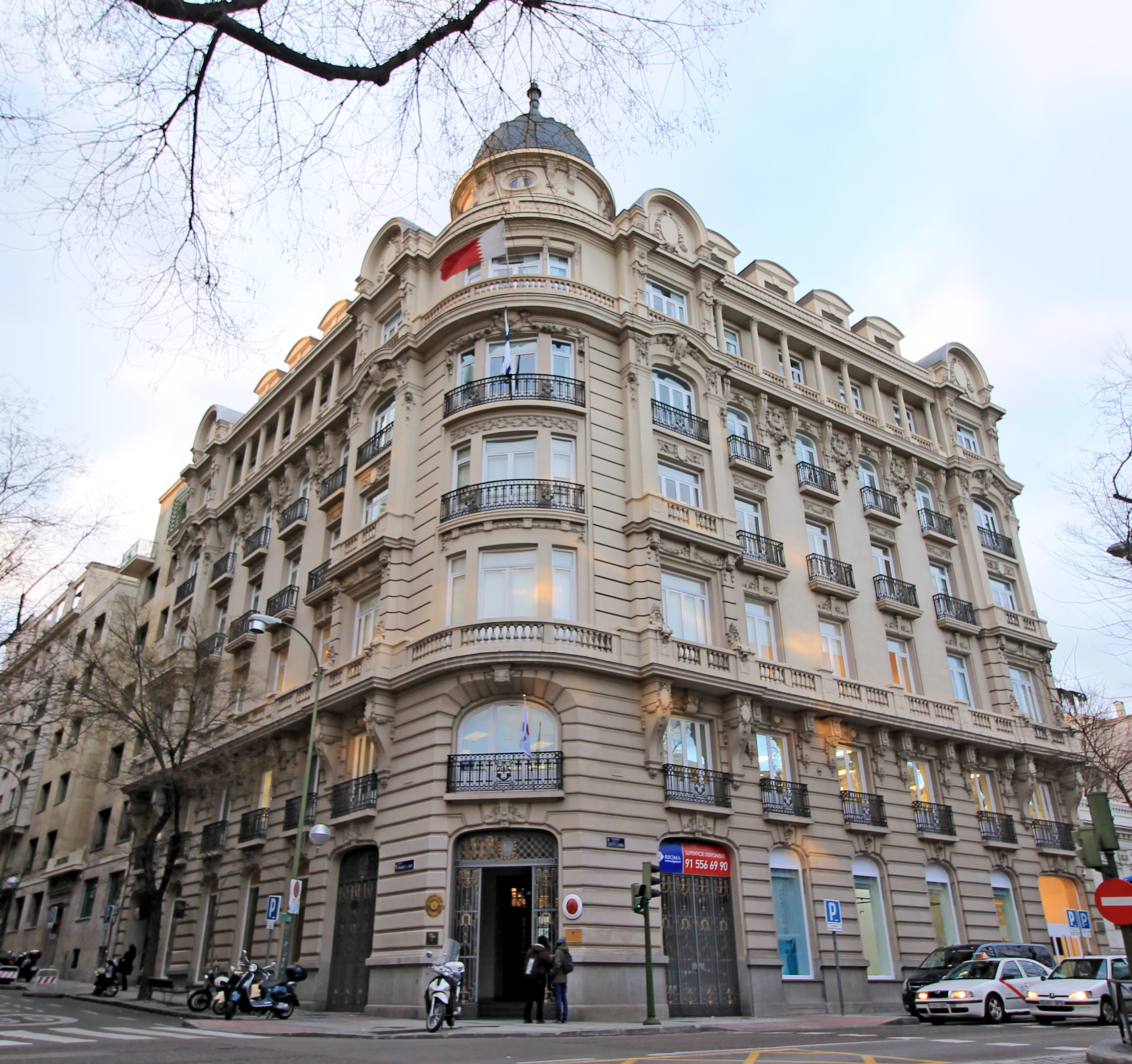 Façade of the building at 15th Paseo de la Castellana in Madrid (Spain).